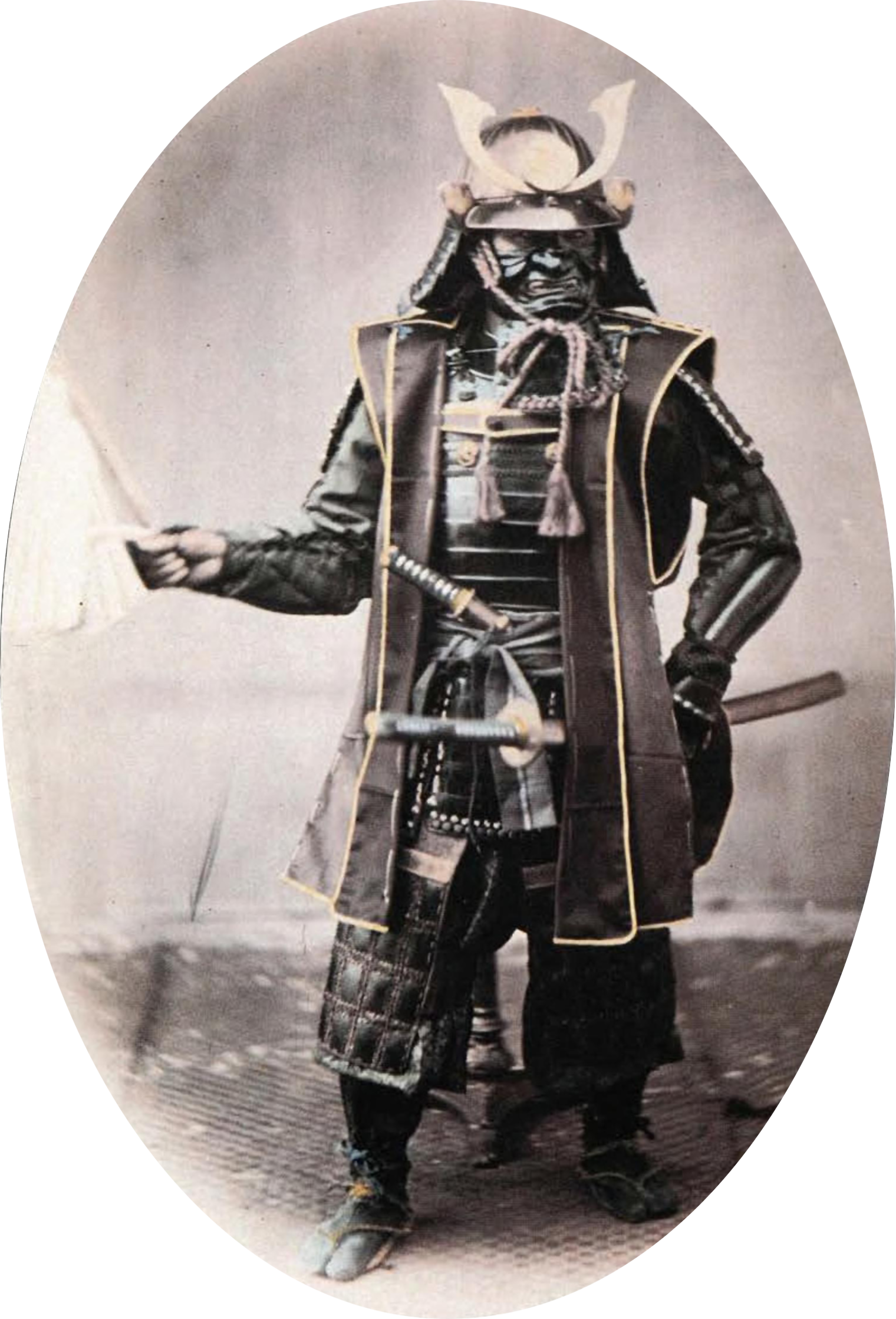 Photograph of a Japanese samurai in armour